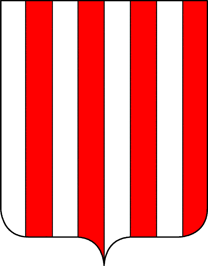 Coat of arms of the House of Grimani from Venice.